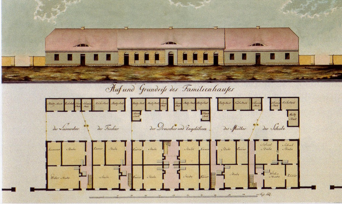 Illustration from the "Paretzer Skizzenbuch" (sketchbook). The so called "Familienhaus" (family house) in Paretz near Potsdam, Germany.